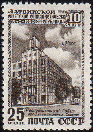 Postage stamp issued by the Soviet Union 1950 depicting view of Riga, Latvia, Bruninieku street, 29-31. Architect Ernest Stalberg. Project - 1927. The project was implemented only partially. It was built in 1930-31 by the German architects, Alfred Karr and Kurt Betge